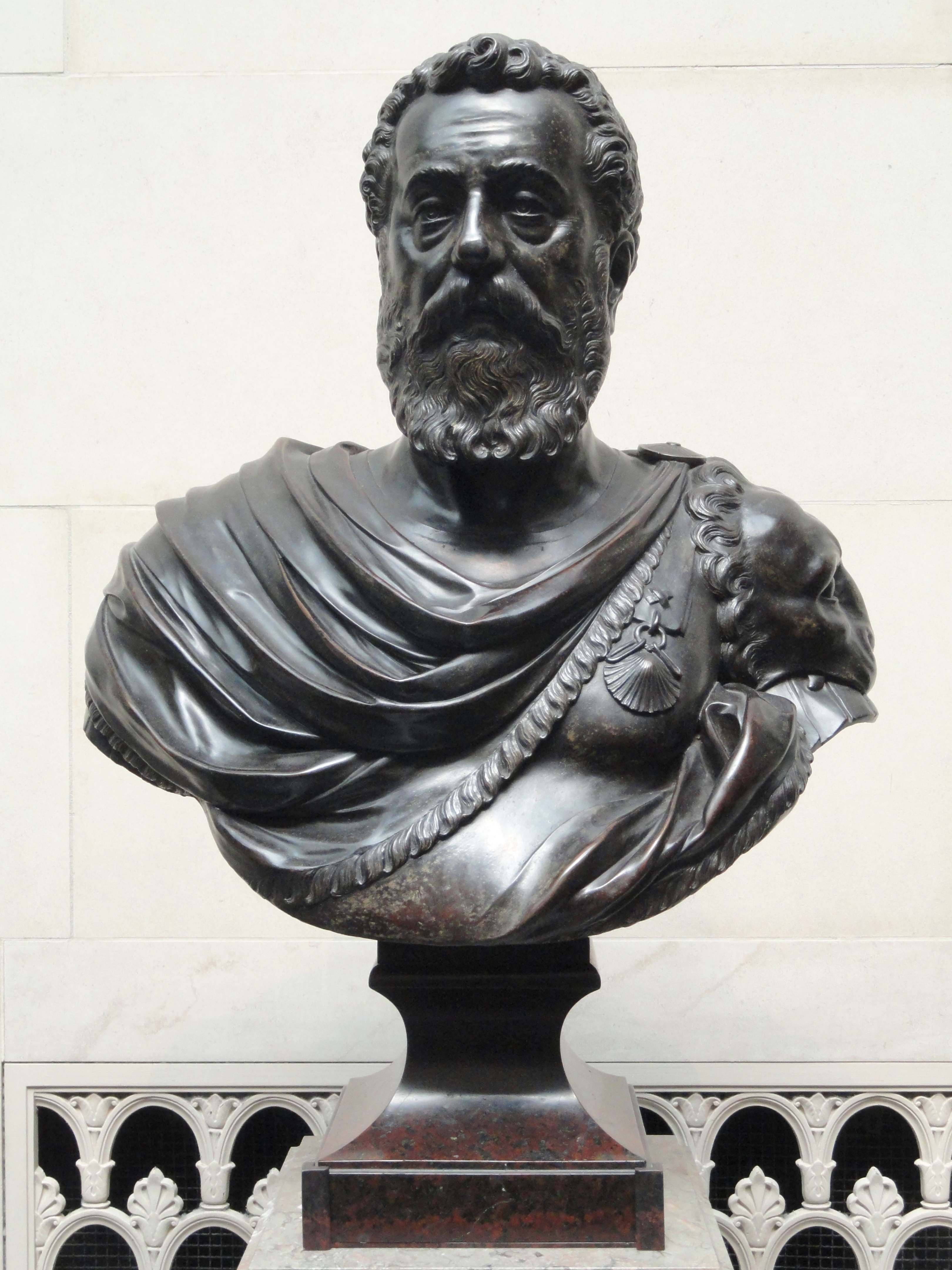 Don Pedro Alvarez de Toledo, by a Florentine or Neapolitan artist, probably 1560-1600, bronze - National Gallery of Art, Washington, DC, USA. This artwork is in the public domain because the artist died more than 70 years ago.